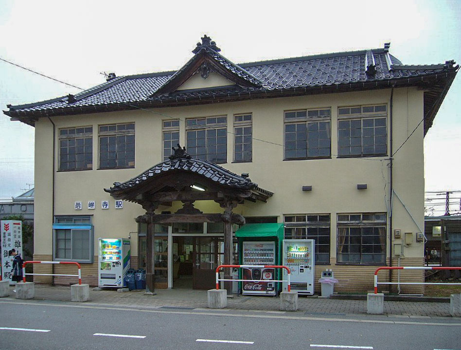 Iwakuraji Station on the Toyama Chiho Railway Tateyama Line and Kamidaki Line in Tateyama, Toyama Prefecture, Japan